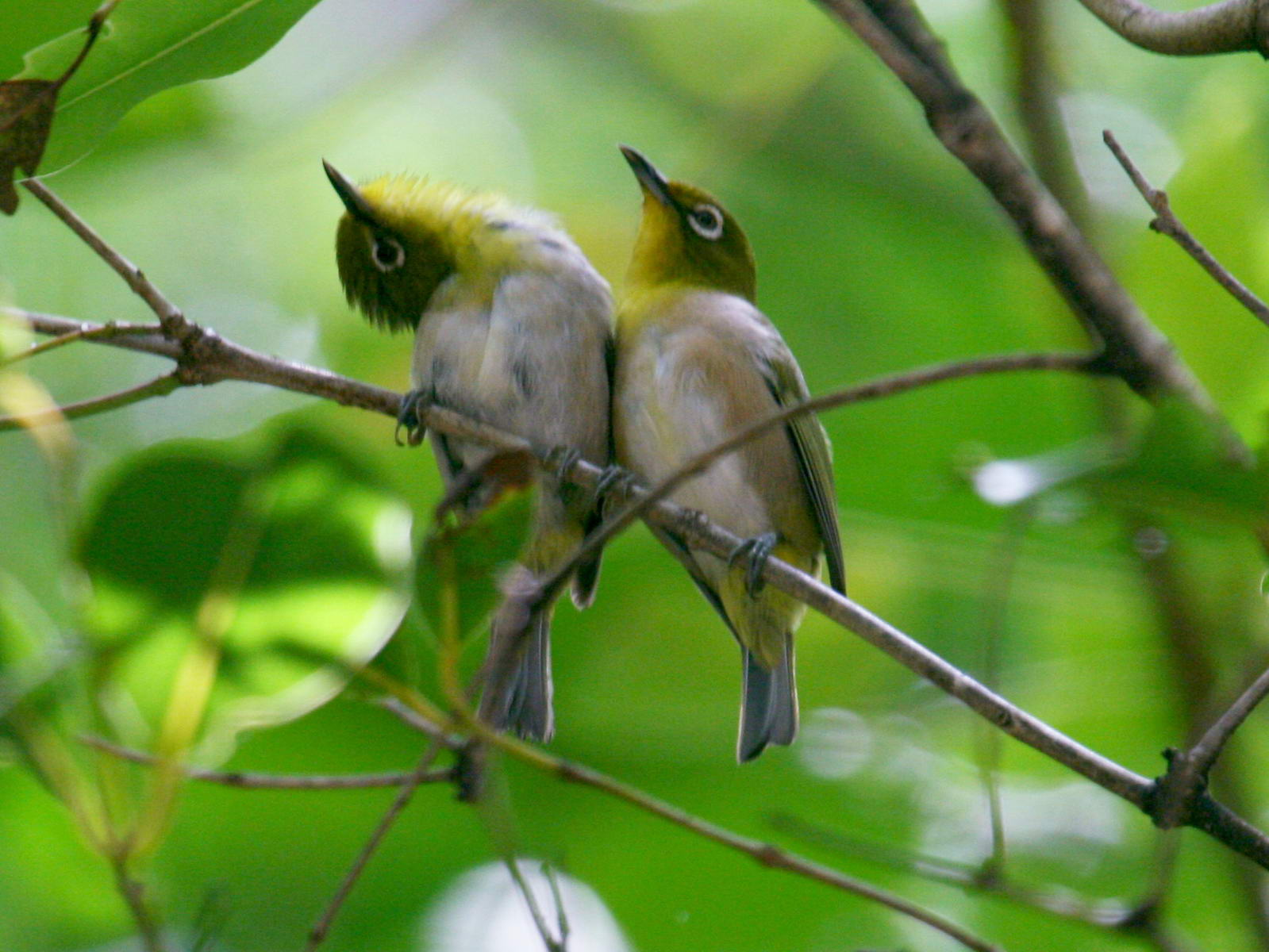 A courting pair of Japanese White-eyes (Zosterops japonicus) - Kauai, Hawaii